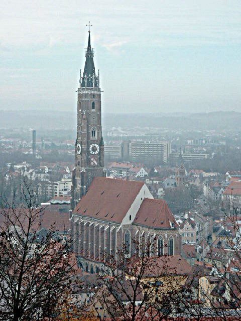 Landshut, Parish and Collegiate Church of St Martin and Castulus, seen from Trausnitz Castle.